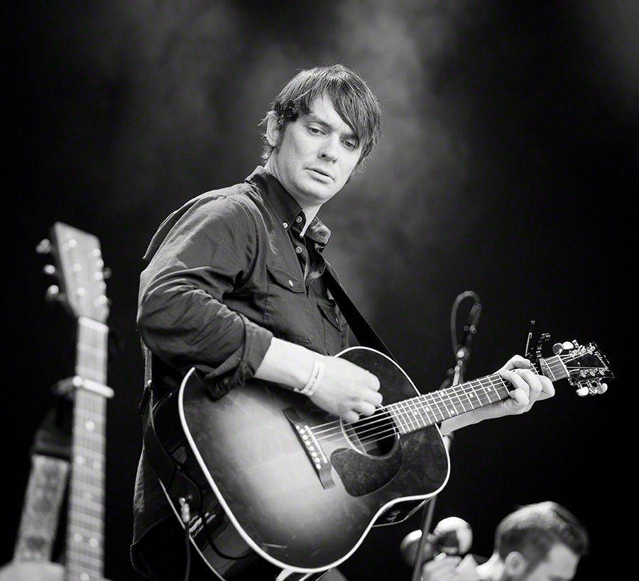 Kjetil Steensnæs performs with 'Die with Your Boots On' at Piknik i Parken in Oslo on 24. June 2016. Lineup:Malin PettersenEven Reinsfelt KroghHumming PeopleBjørnar BrandsethMarie TveitenAdam EatonFilip Roshauw